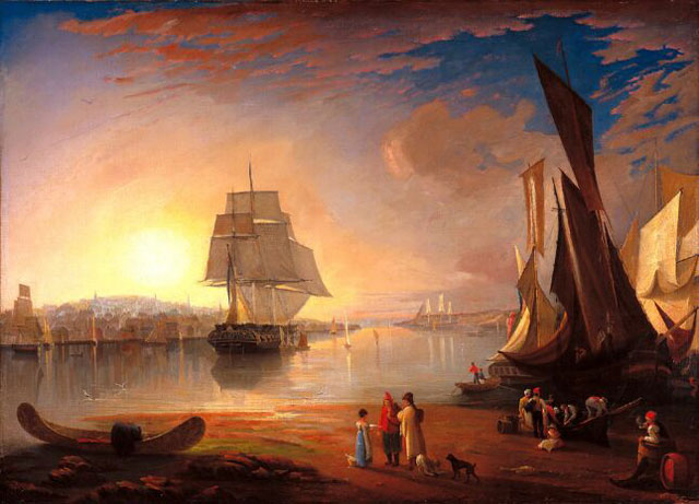 The Port of Halifax